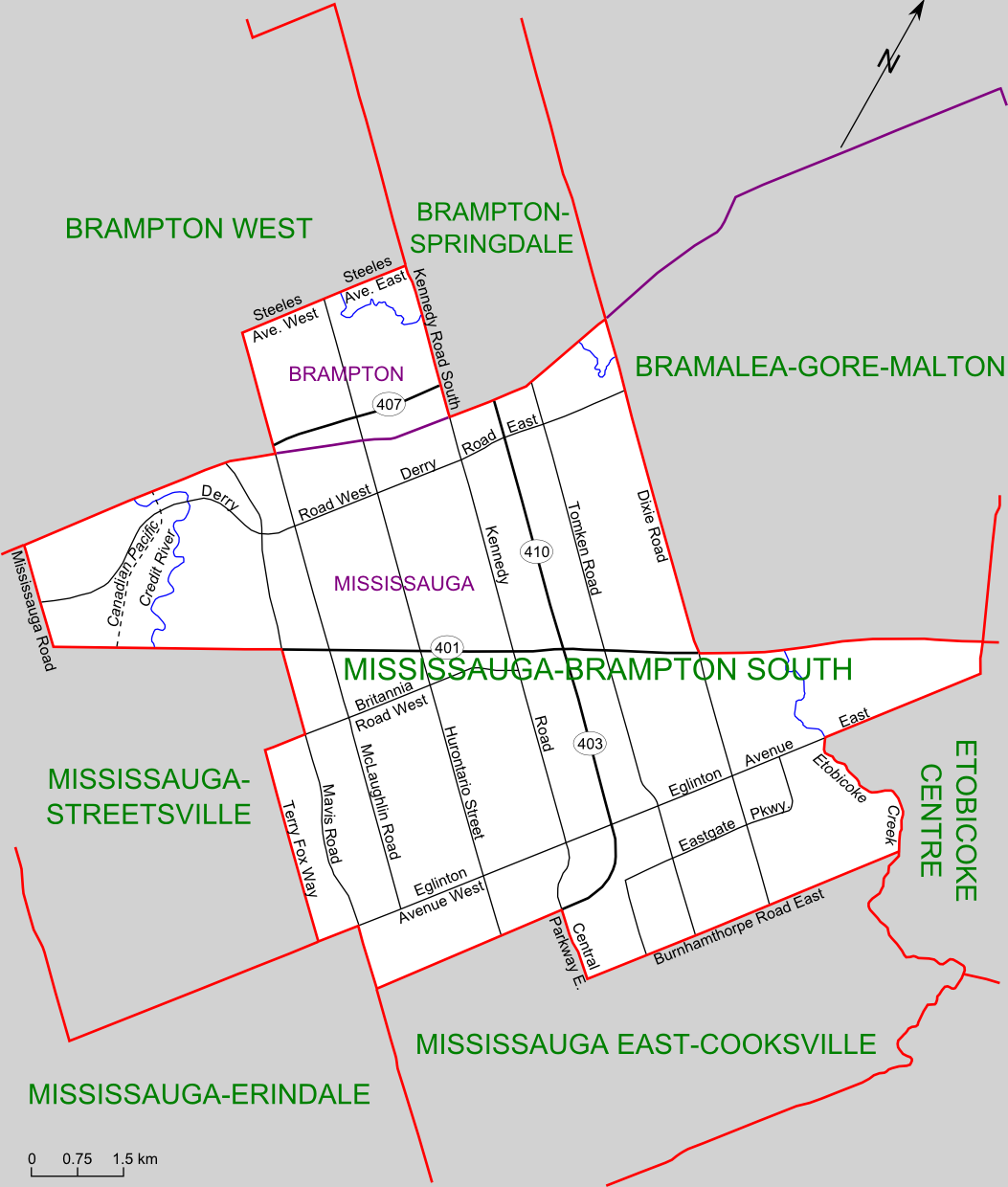 Map of the Ontario federal and provincial riding of Mississauga-Brampton South, boundaries defined in 2003 and adopted federally in 2004 and provincially in 2007